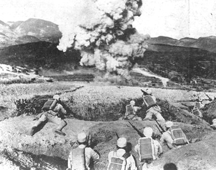 Chinese troops fighting along the Salween River front